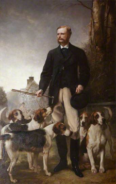 Hon. Mark Rolle (1835–1907) of Stevenstone, St Giles in the Wood, Devon. 1871 portrait by Hon. Henry Richard Graves (1818-1882), 2nd son of Thomas Graves, 2nd Baron Graves. He is shown with foxhounds of his own Stevenstone Hunt, apparently with a background of terraced estate cottages built by him in St Giles-in-the-Wood. Collection of Barnstaple Town Council, PCF41. On display in Council Chamber, Guildhall, Barnstaple, North Devon. 236 * 145 cm. This is a very large painting which dominates the Council Chamber and all the other many portraits displayed in it. Mark Rolle held the honorary position of High Steward of Barnstaple.